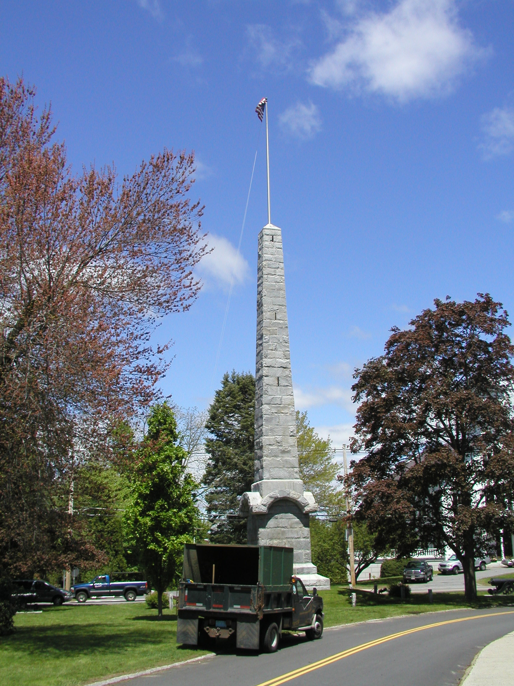 Isaac Davis Monument in Acton, Massachusetts Picture taken by LWV Roadrunner in May 2006